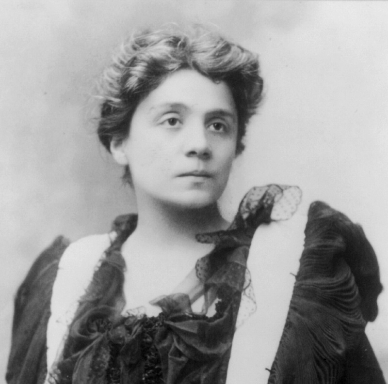 Eleonora Duse, italian actress.